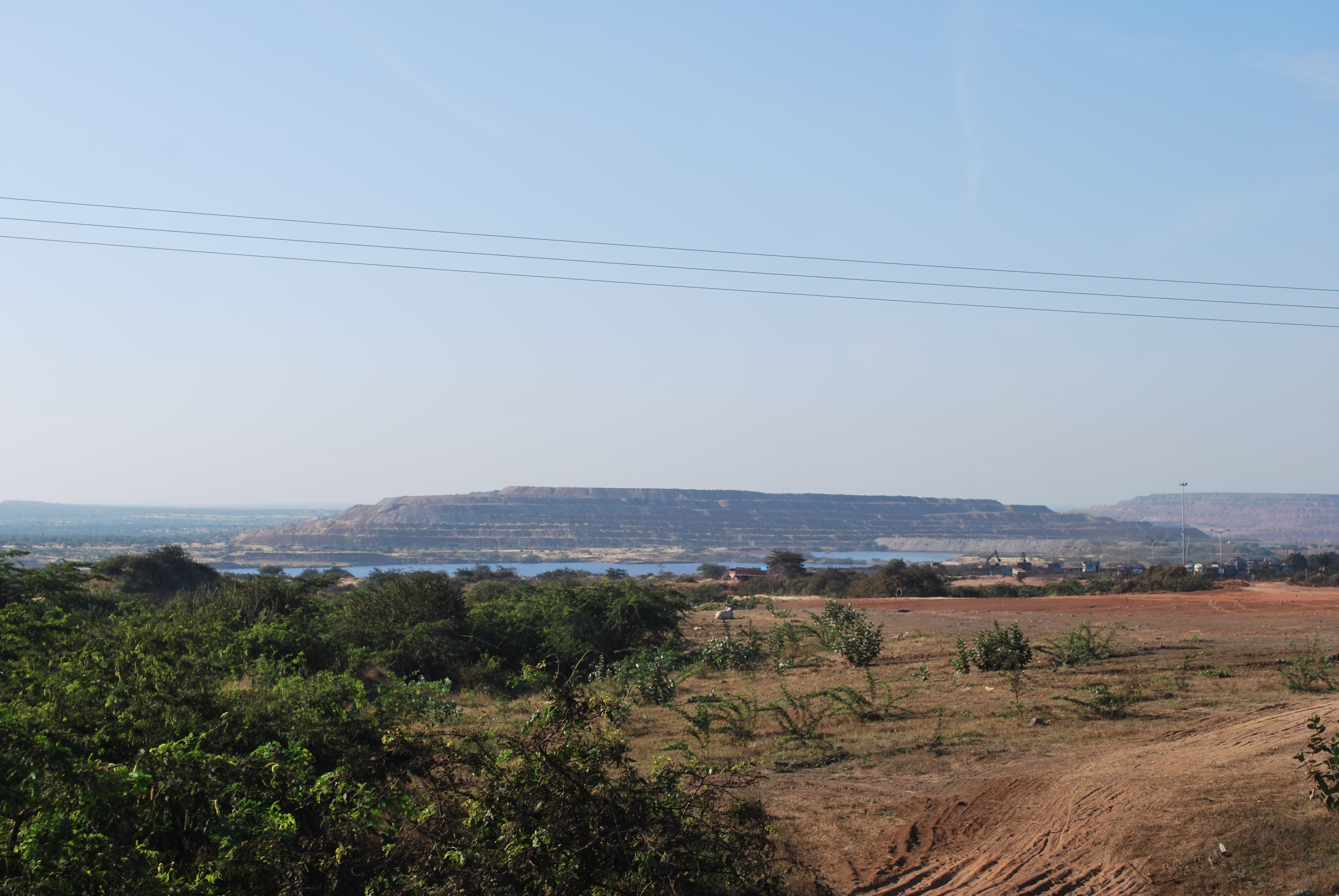 Panandhro Coal Mine, Kachchh